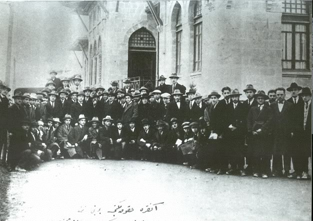 First Day of opening of School